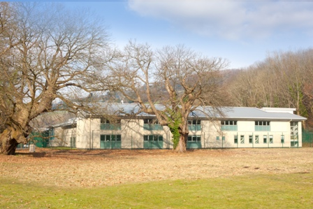 The accomodation block at CTC CyG